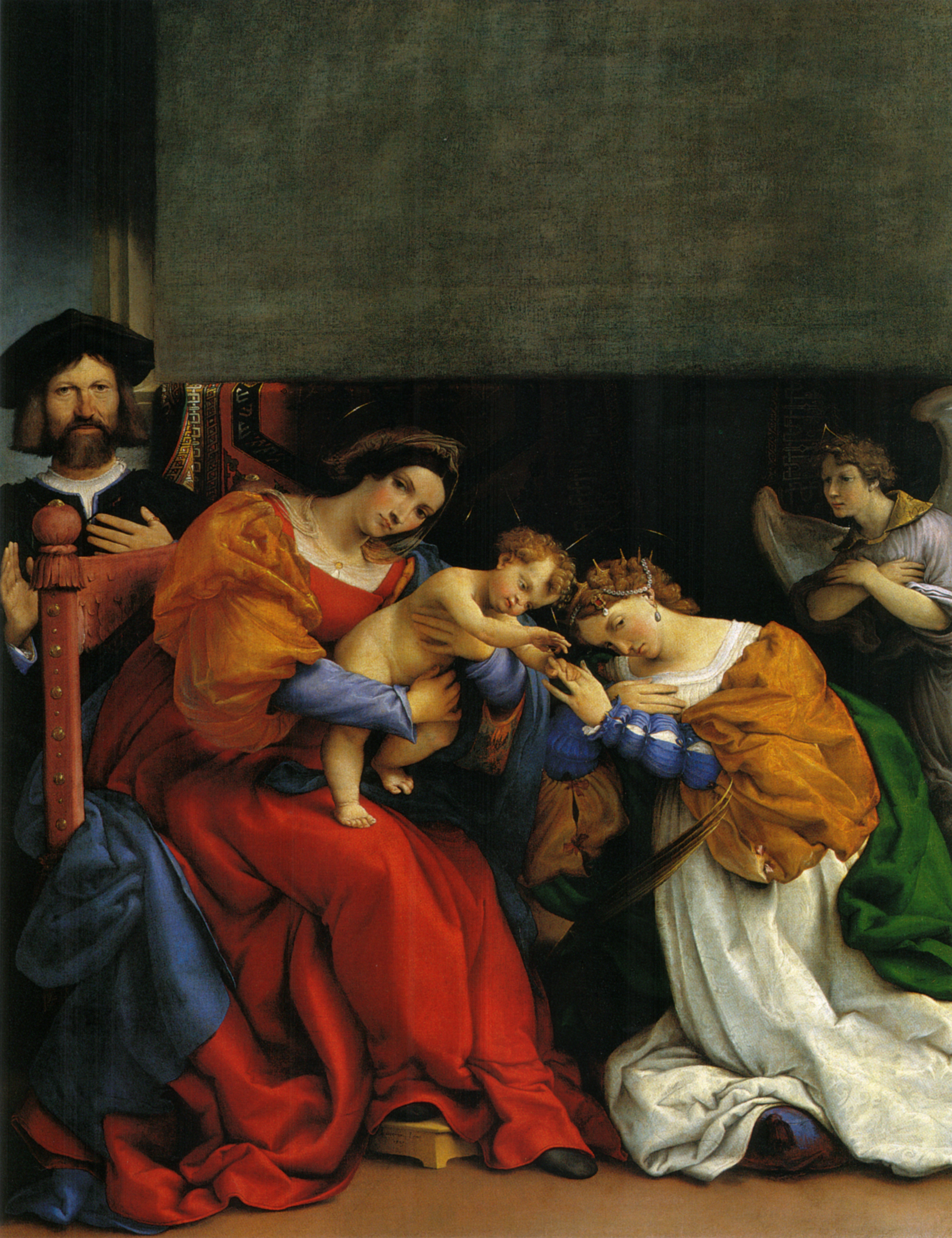 The Mystical marriage of Saint Catherine